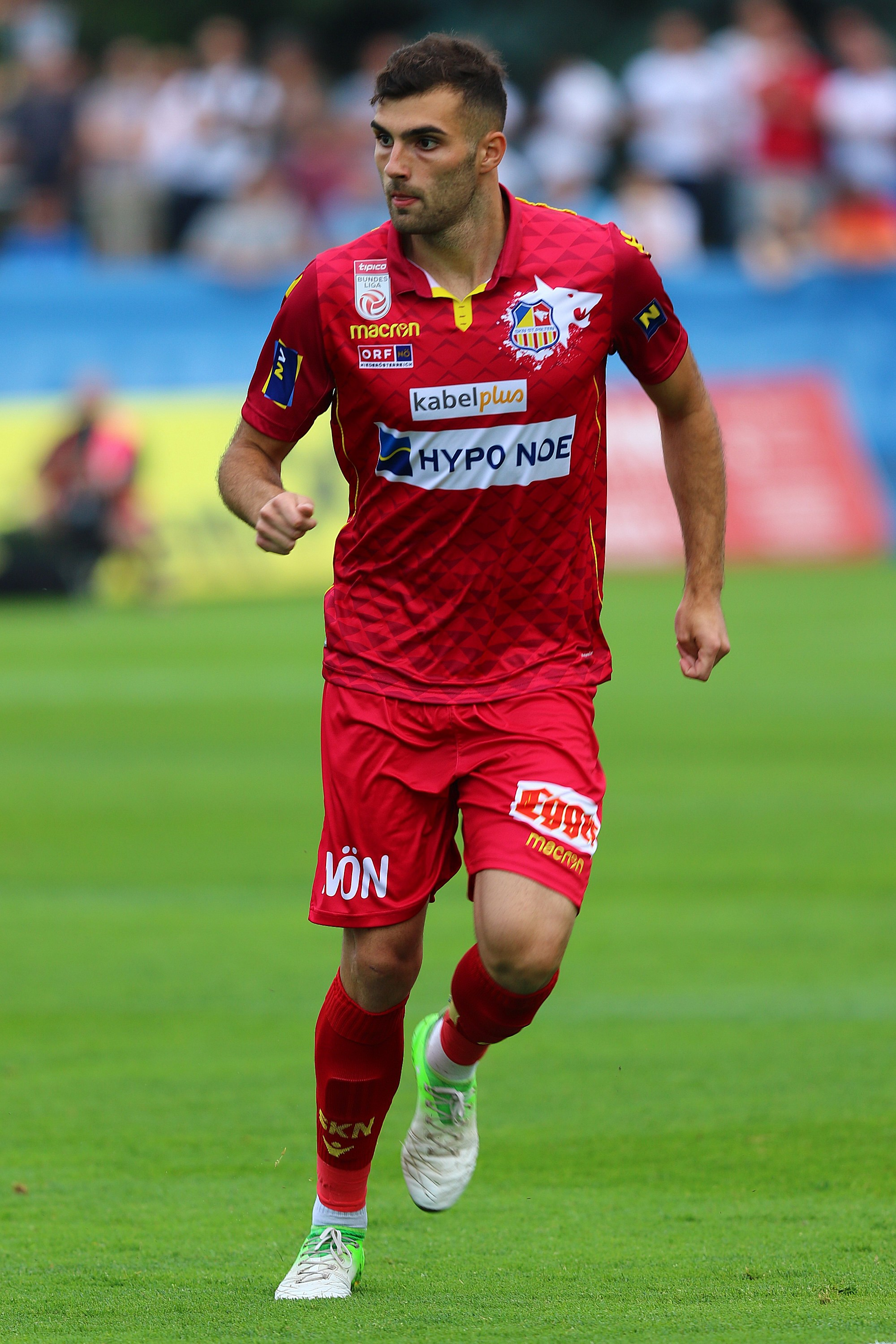 Football qualification match for the Austrian Bundesliga - SC Wiener Neustadt (white shirts) vs. SK St. Pölten (red shirts) 0-2. – The photo shows Manuel Martic.